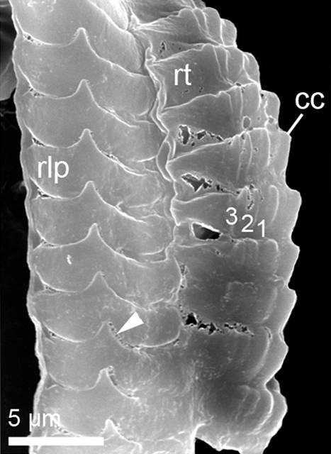 SEM image of radula of Pontohedyle milaschewitchii. rt = rachidian tooth, cc = central cusp of rachidian tooth, rlp = right lateral plate, numbers mark lateral cusps of rachidian tooth.